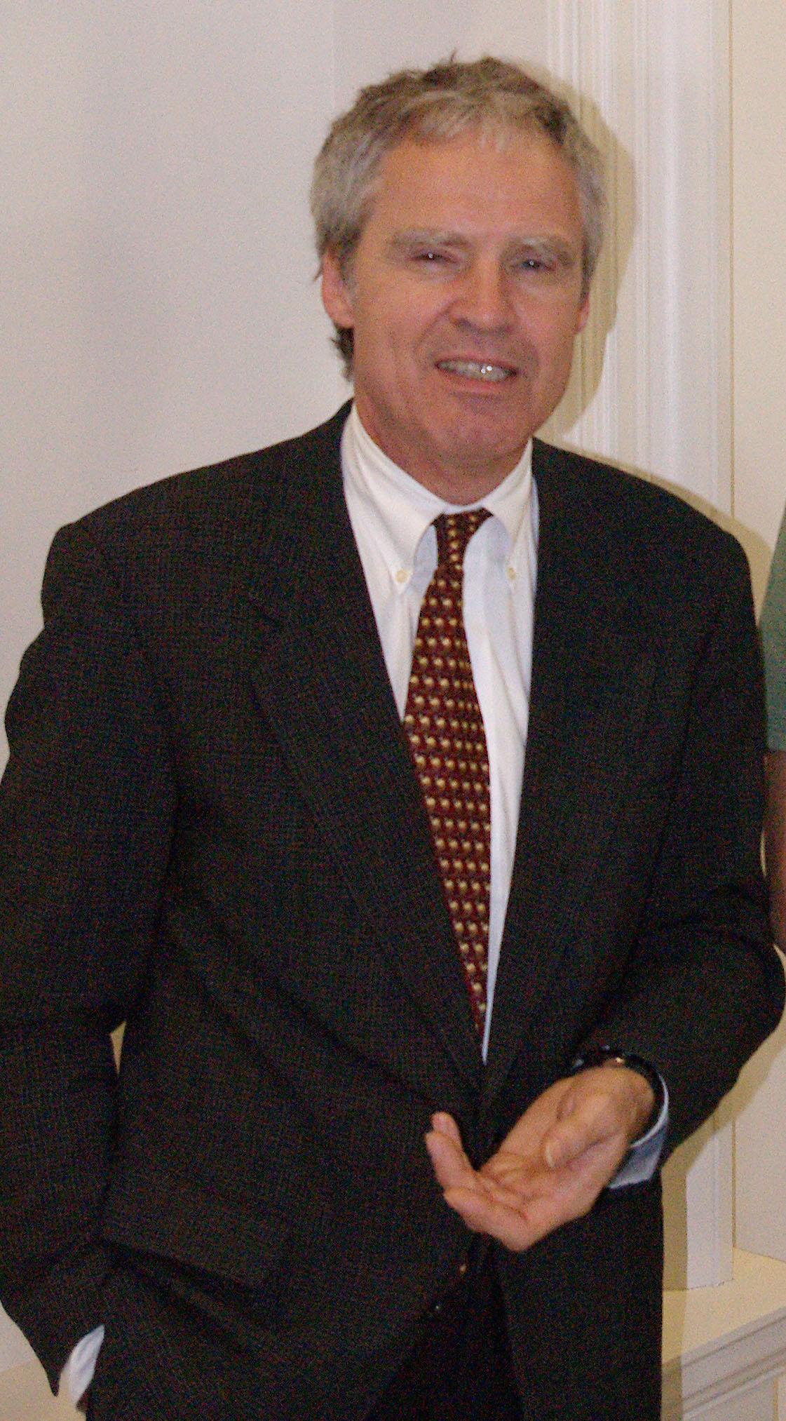 Horst Störmer - Winner of the 1998 Nobel Prize in physics. Taken by me during his visit to the University of Delaware